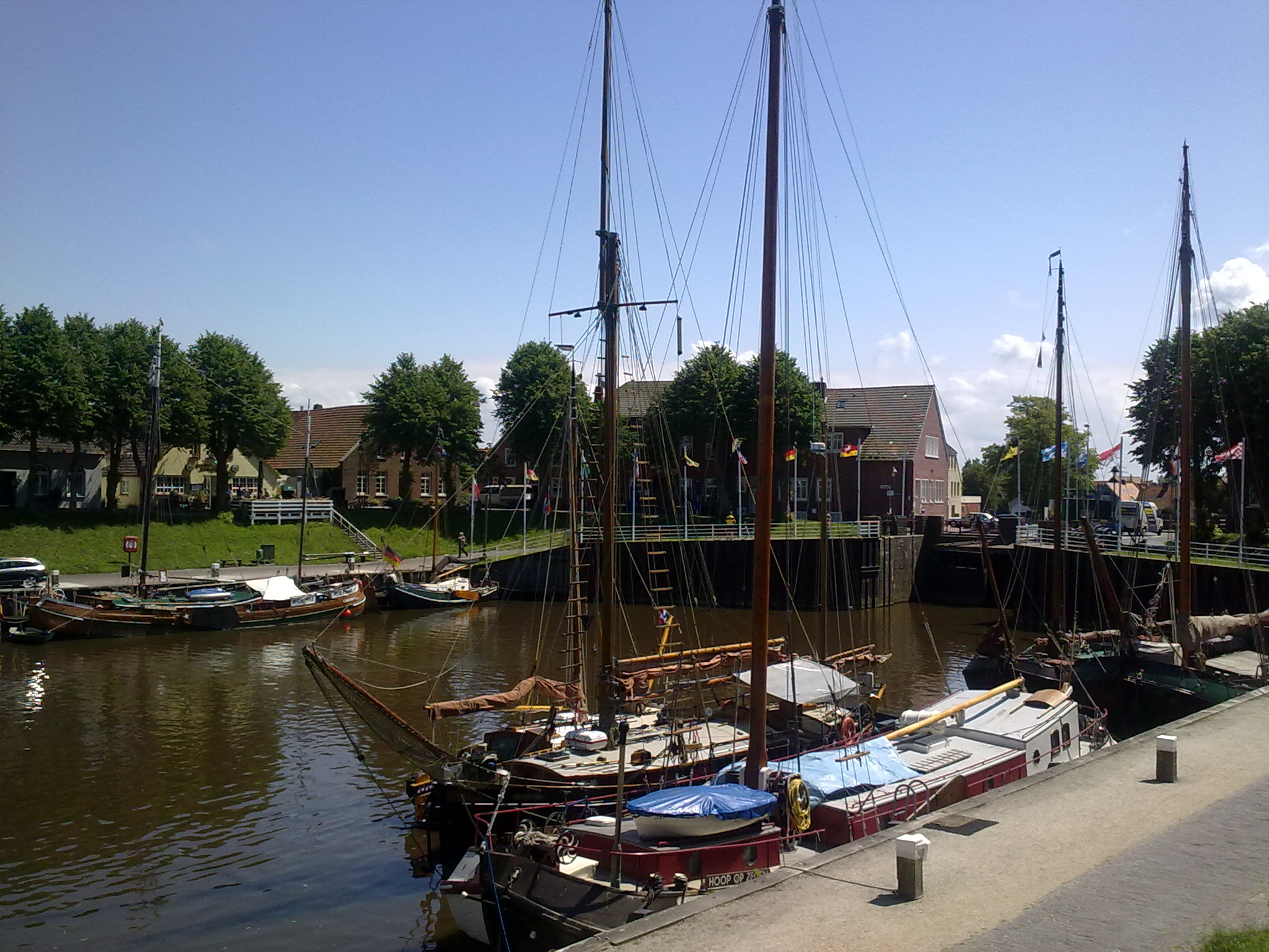 Carolinensiel harbour, North Sea, Lower Saxonia, Germany